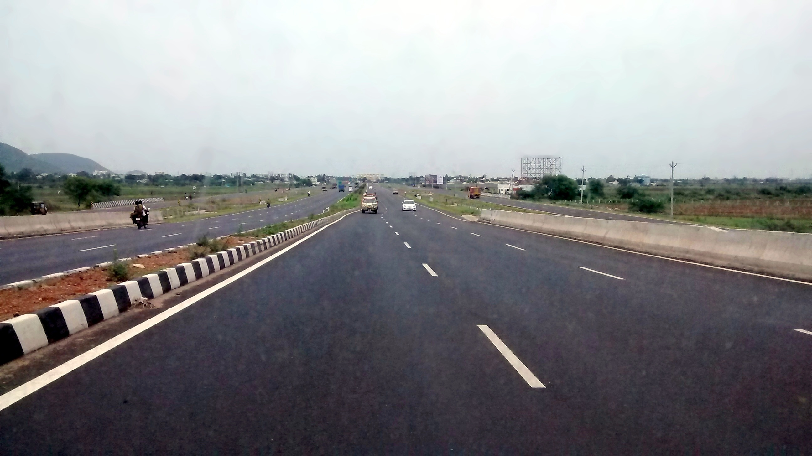 Nationa Highway 16 between Vijayawada - Guntur